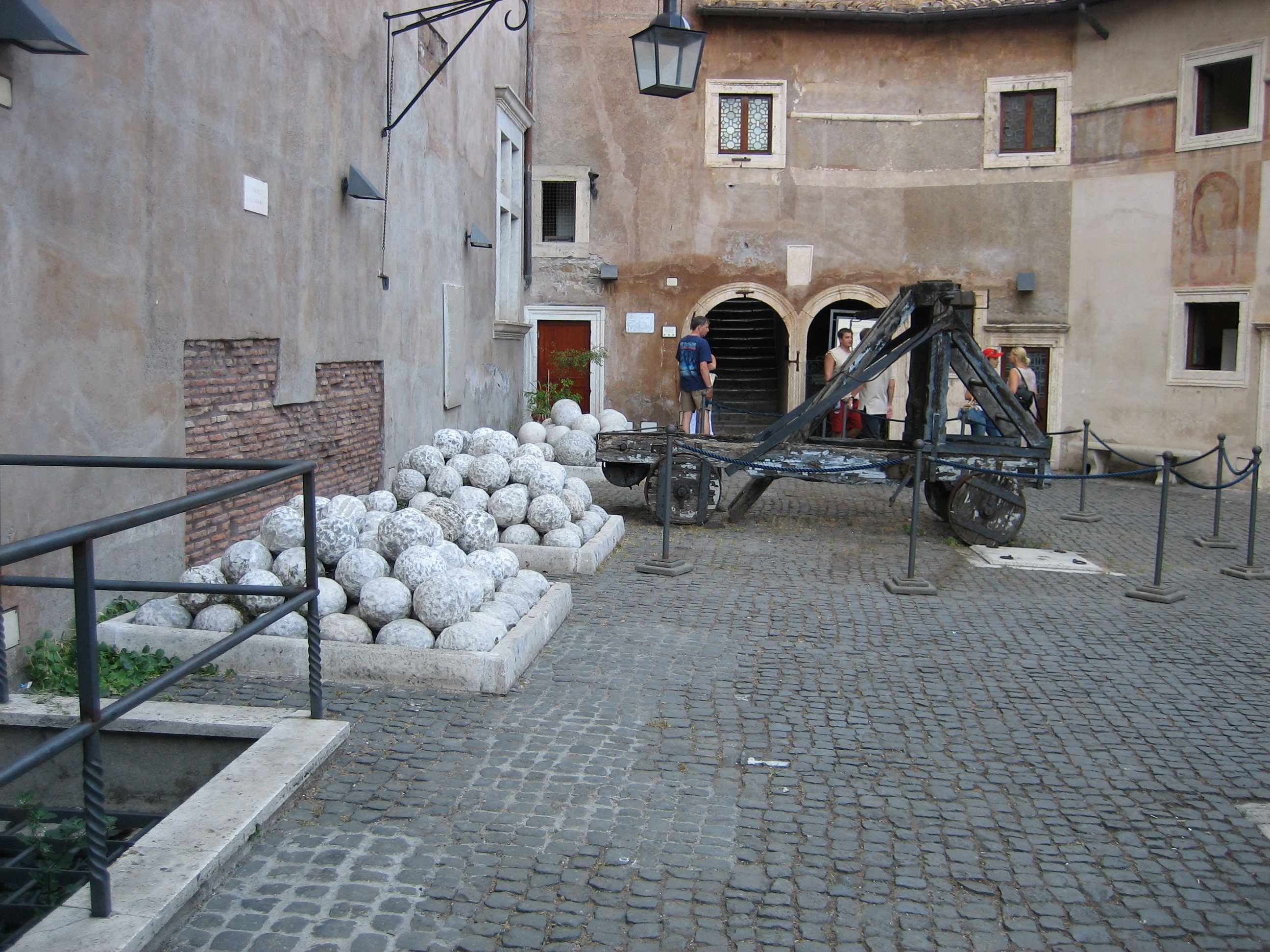 Rom Engelsburg Innenhof. Courtyard inside Castel Sant'Angelo (Rome).